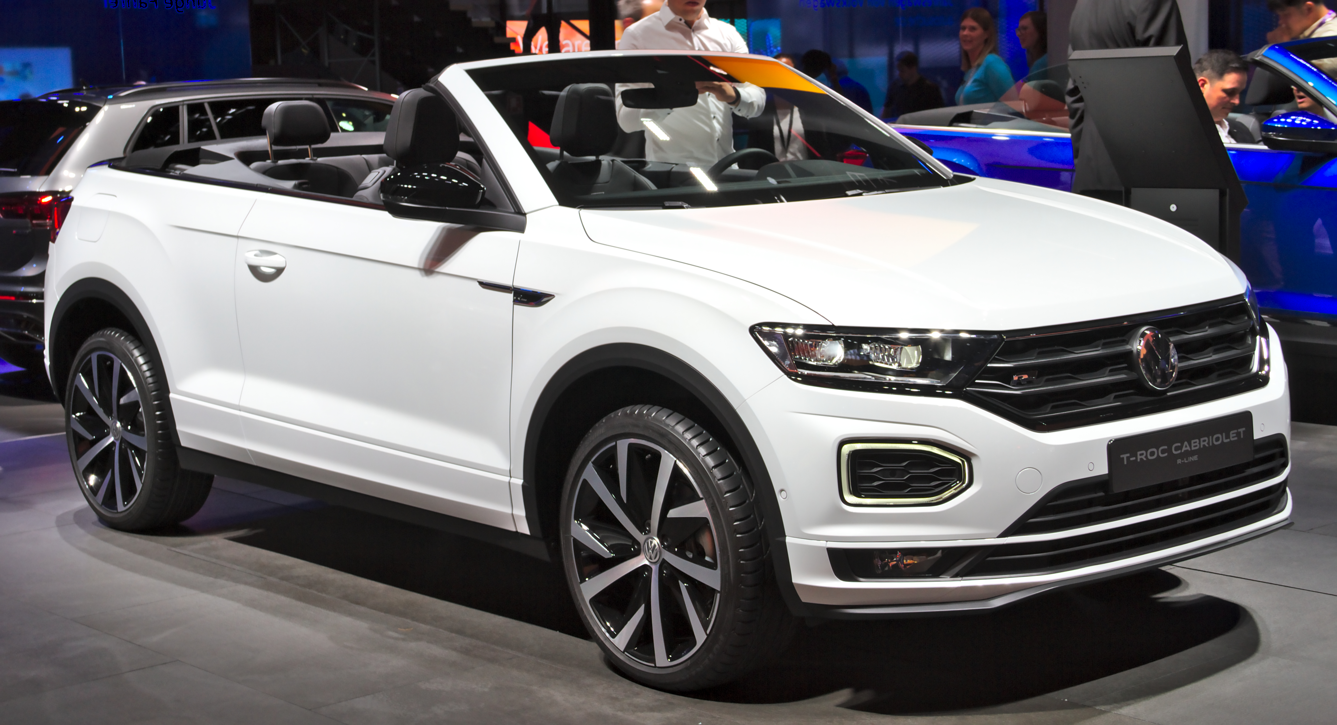 Volkswagen_T-Roc_Cabriolet at IAA 2019